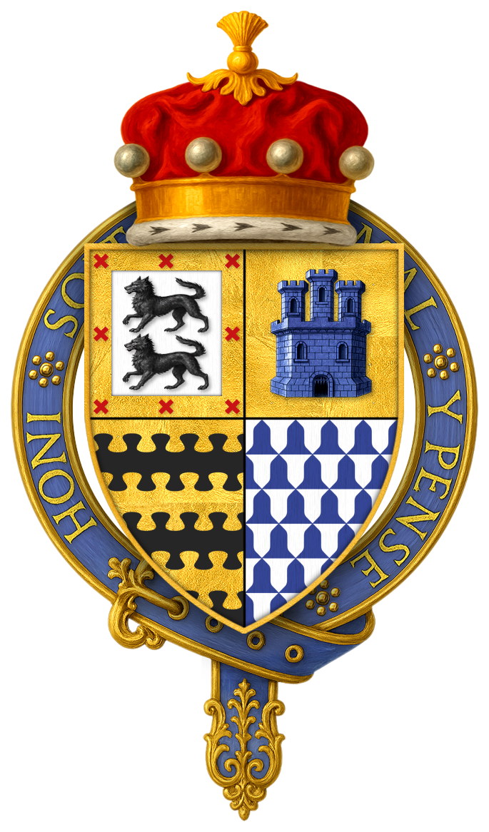 Sir Walter Blount, 1st Baron Mountjoy, KG HOPE, W. H. St. John, The Stall Plates of the Knights of the Order of the Garter 1348 – 1485: A Series of Ninety Full-Sized Coloured Facsimiles with Descriptive Notes and Historical Introductions, Westminster: Archibald Constable and Company LTD, 1901. “ Plate LXXVIII - Sir Walter Blount, Lord Mountjoy, K.G. 1472-1474… the arms are quarterly: 1, Argent, two wolves passant sable on a bordure of the first eight saltires gules (Ayala); 2, Or, a tower azure (Mountjoy); 3, Barry undé or and sable (Blount); 4. Vair (Gresley). ” Lord Mountjoy's stall plate remains intact within the twenty-third stall, on the south side of the quire.